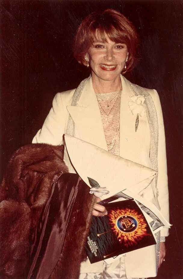 Lee Grant at the premiere of Sylvester Stallone's movie F.I.S.T., April 1978